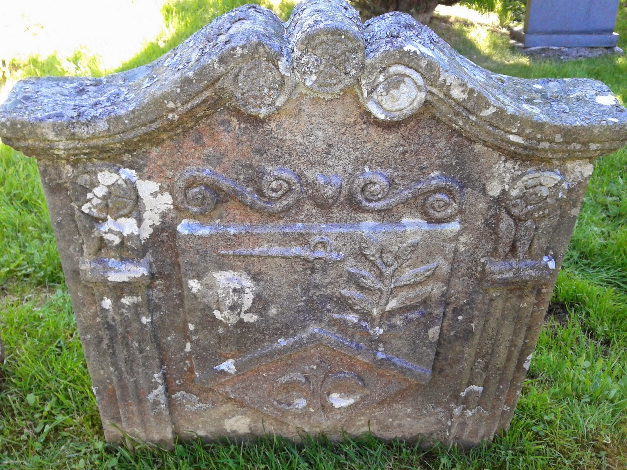 17th &18th century Routledge gravestones commonly show a shield bearing a semblance of a chevron between a garb (sheaf of wheat), a sprig of willow, and, in chief, a sword featuring an "Irish" basket hilt. The fleur de lis in base, is a family-specific symbol.